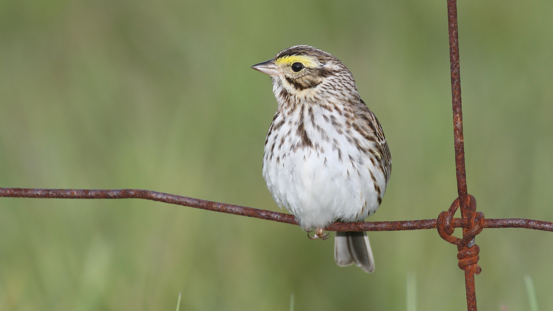 Savannah Sparrow -- Kirkfield, Ontario, Canada -- 2008 June